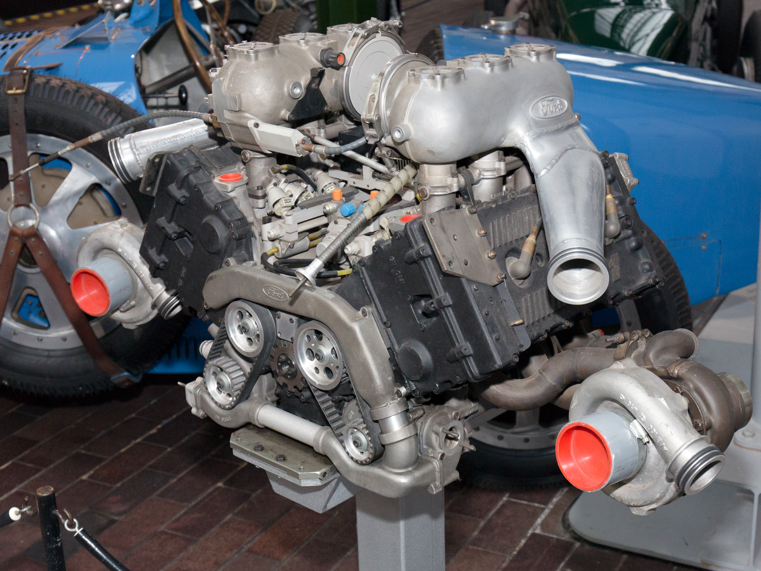 Cosworth GBA engine